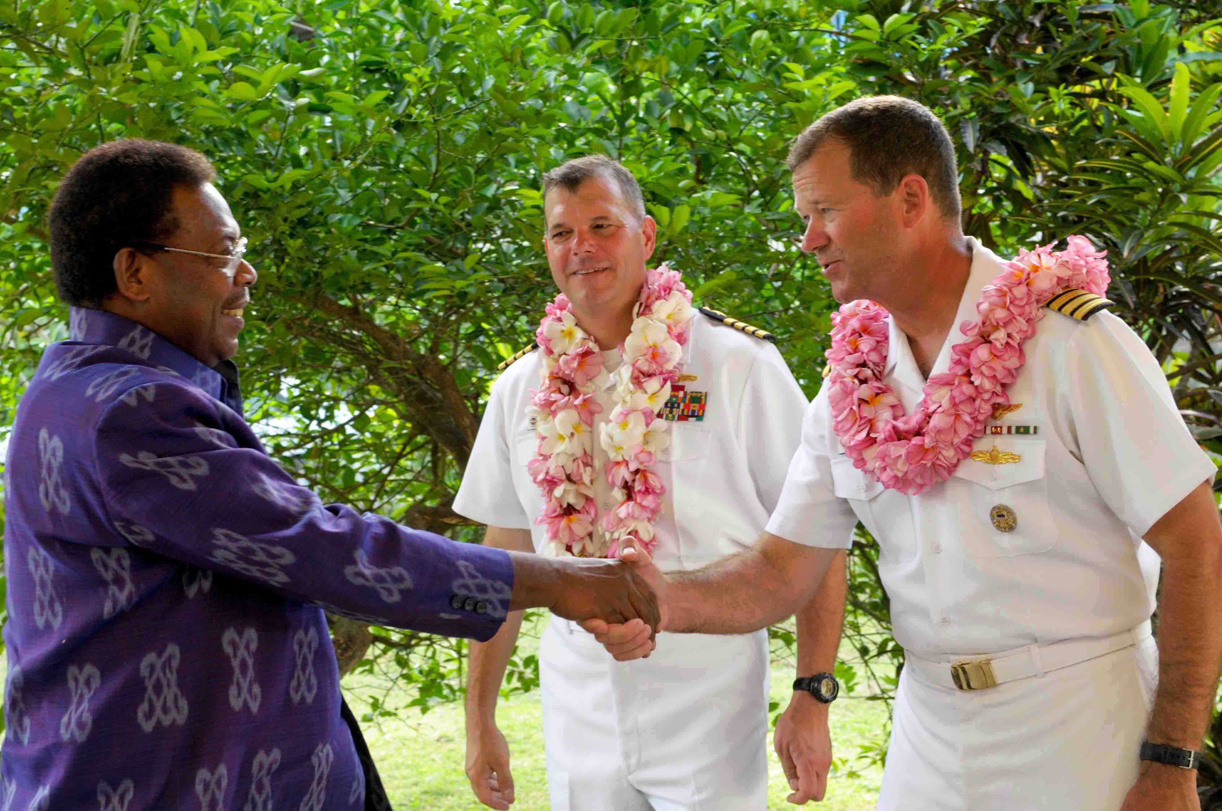 HONIARA, Solomon Islands (Aug.18, 2009) Prime Minister Dr. Derek Sikua, greets Capt. Andrew Cully, Pacific Partnership mission commander, and Capt. John Shaub, Pacific Partnership deputy mission commander, during the closing ceremony of the Pacific Partnership mission in the Solomon Islands. Pacific Partnership is a humanitarian assistance mission in the U.S. Pacific Fleet area of responsibility. (U.S. Navy photo by Mass Communication Specialist 2nd Class Joshua Valcarcel/Released)